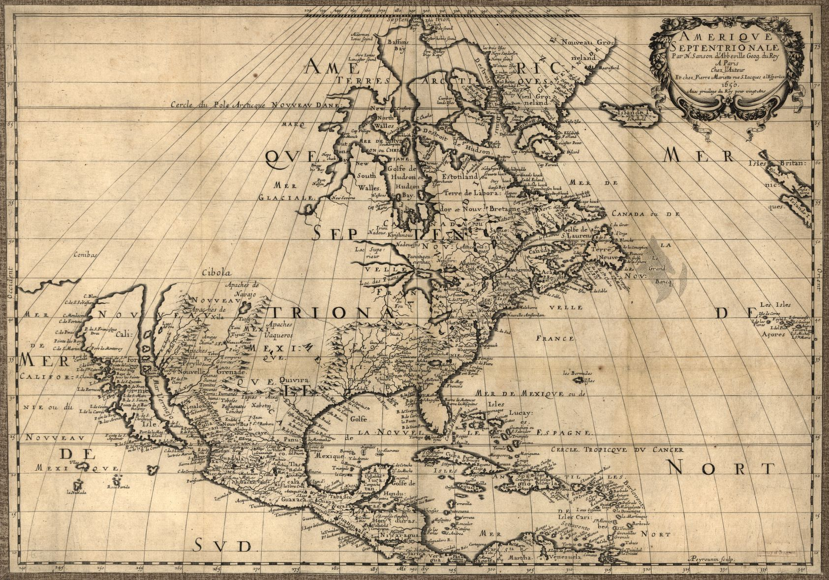 North America. Nicolas Sanson d'Abbeville. L'Amerique Septentriolae Divisee en ses Prinipales Parties . Amsterdam: Hubert Jaillot. Large hand-colored engraved map, two sheets pasted together, some offsetting from when the map was folded, and a bit of discoloration from tape adhesive on the verso just barely showing below Costa Rica along the bottom edge, framed, 34 x 22 in. In this first state, Sanson's map depicts California as an island and shows a confusing mass of open-ended Great Lakes. Much information about North American Indian tribes is included, the Caribbean is illustrated in great detail, and the west is dominated by a large blank expanse.